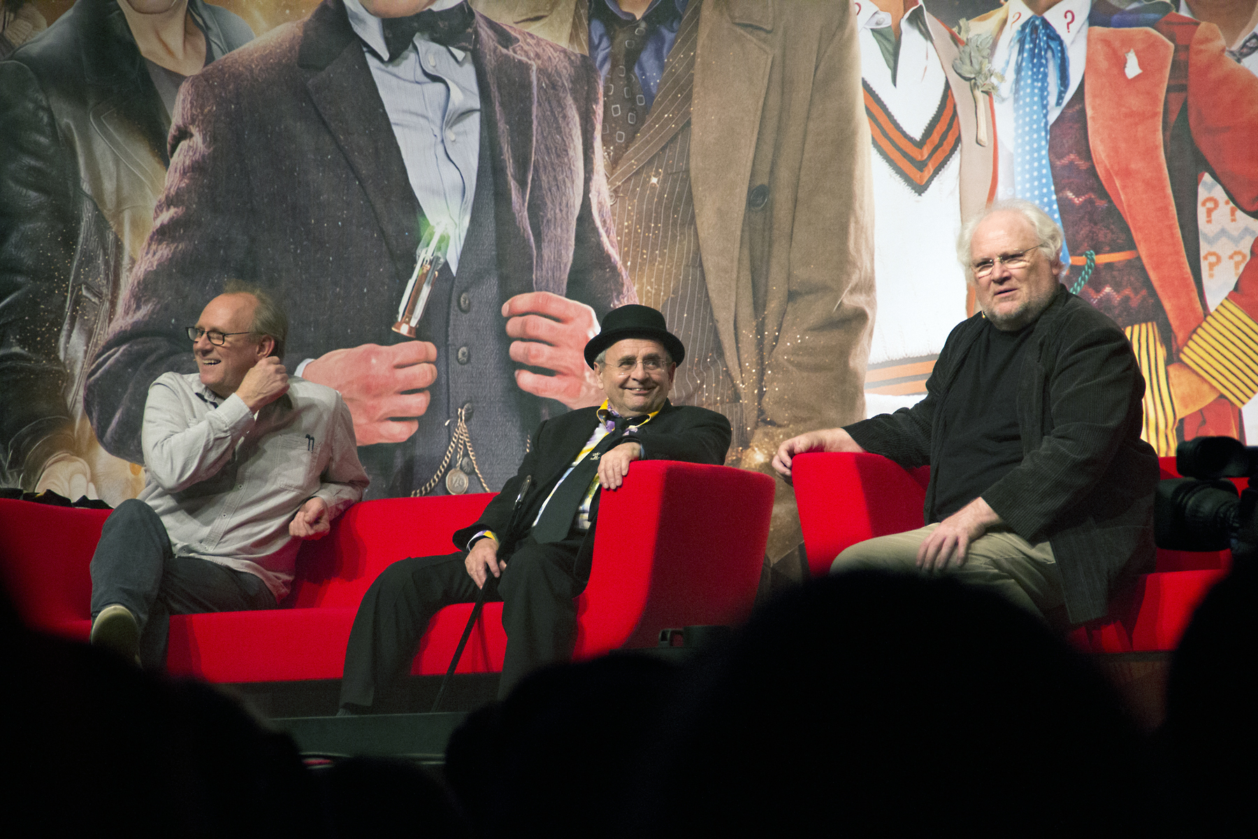 Peter Davison, Sylvester McCoy, Colin Baker at 50th Anniversary of Doctor Who event